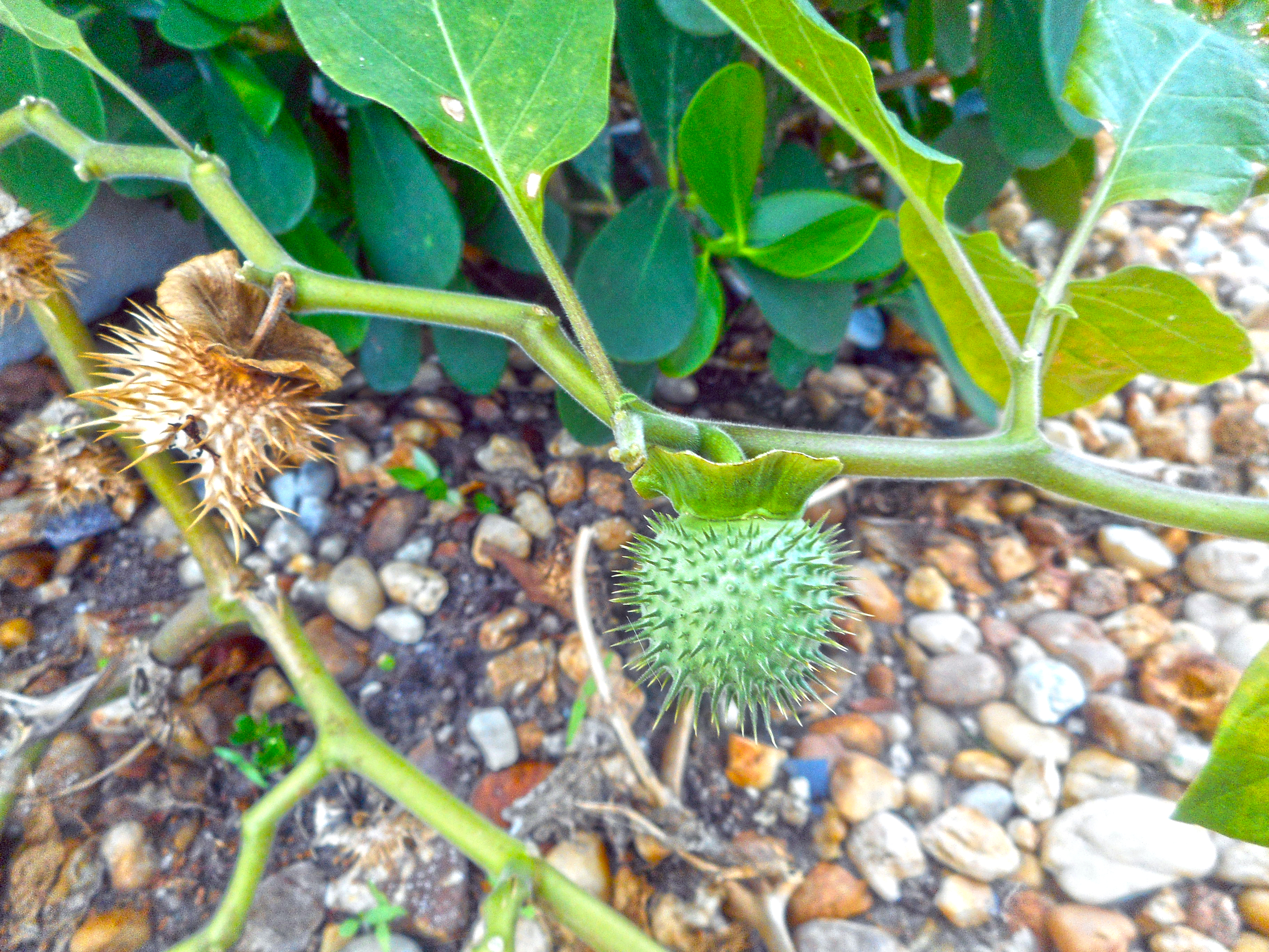 Devil's Trumpet - Green fruit